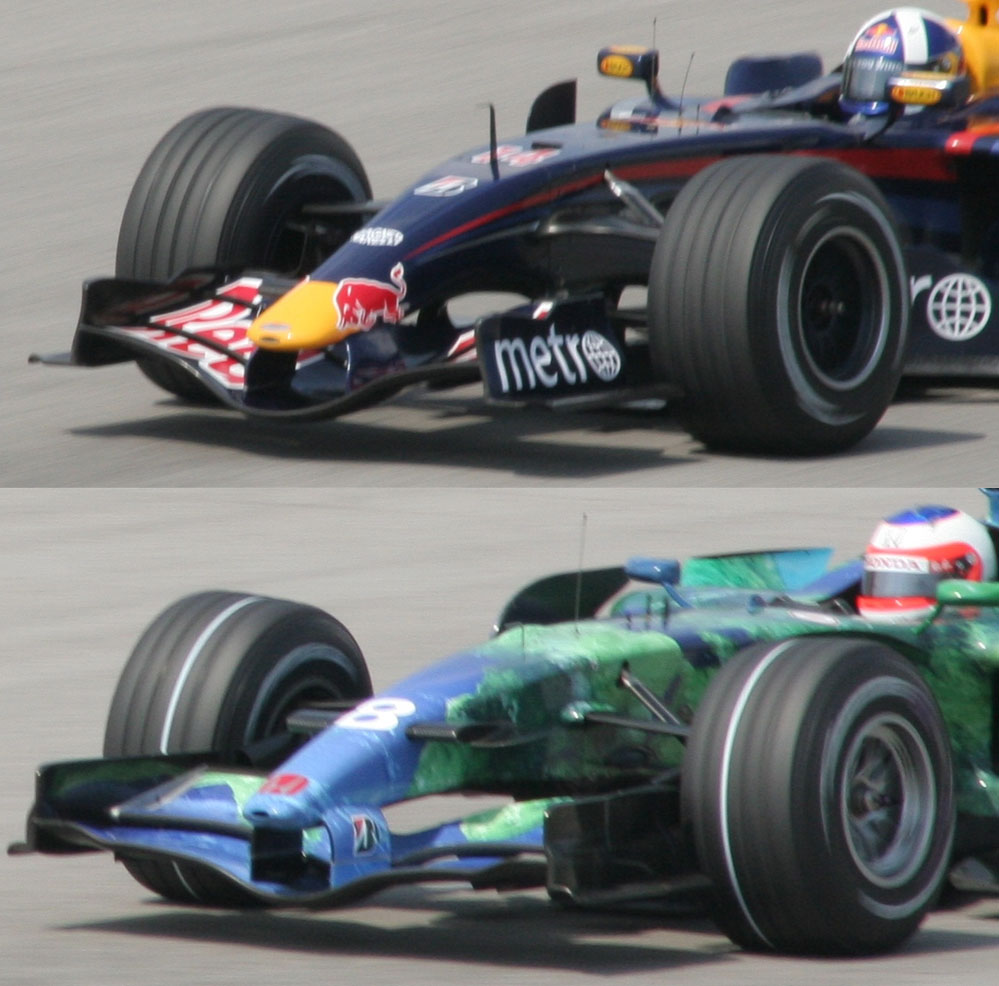 Comparison of prime and option (softer and harder) compound tyres used at the 2007 Malaysian Grand Prix. The two images have been cropped to show only the front tyres.